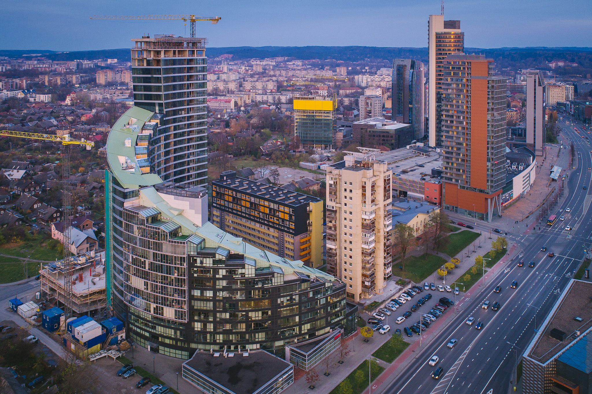 Views of Šnipiškės district (Vilnius, Lithuania) in 2017